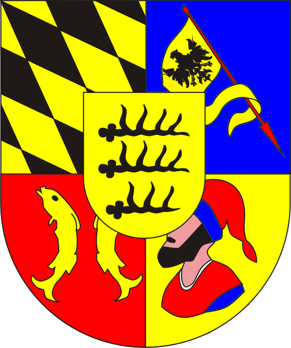 coat of arms 1707-1803